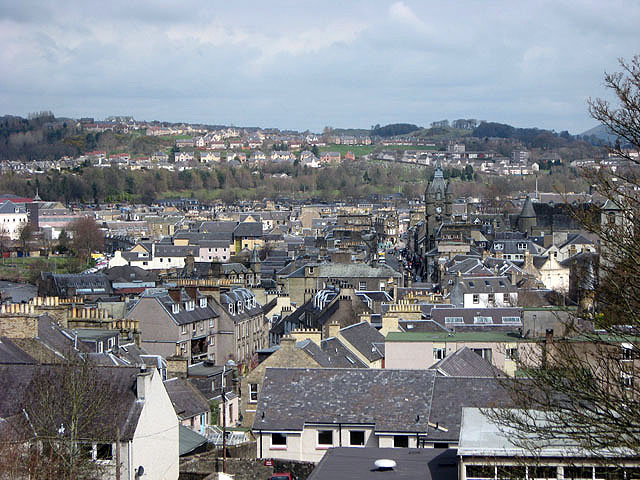 Hawick from the top of the Motte. The town centre viewed from the Motte 767652. The clock tower of the town hall in High Street is visible centre right.